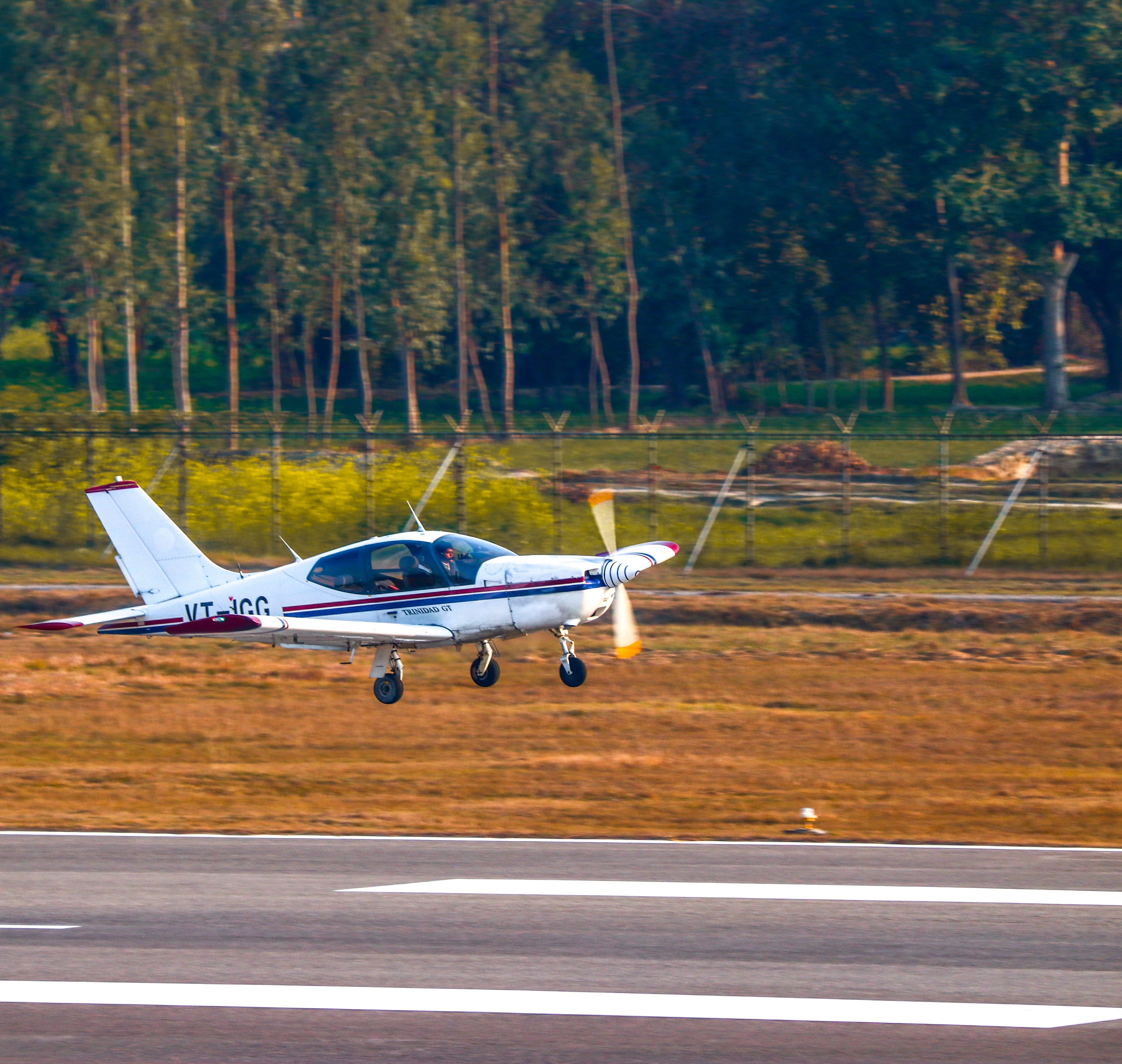 One of the Socata TB-20 that IGRUA operates, taking off.